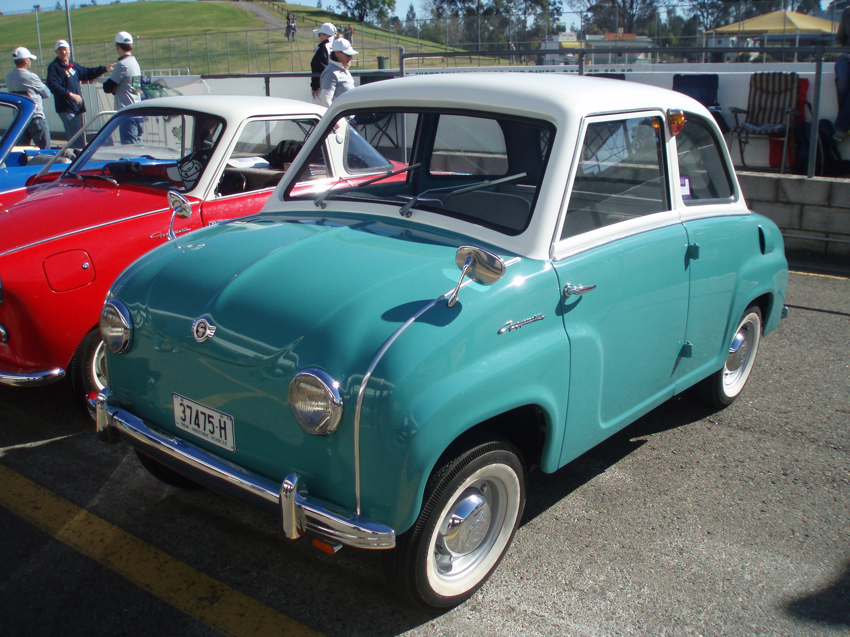 1959 Goggomobil T series sedan. Taken at Shannon's Eastern Creek Classic 2008, held at Eastern Creek Raceway Sydney.